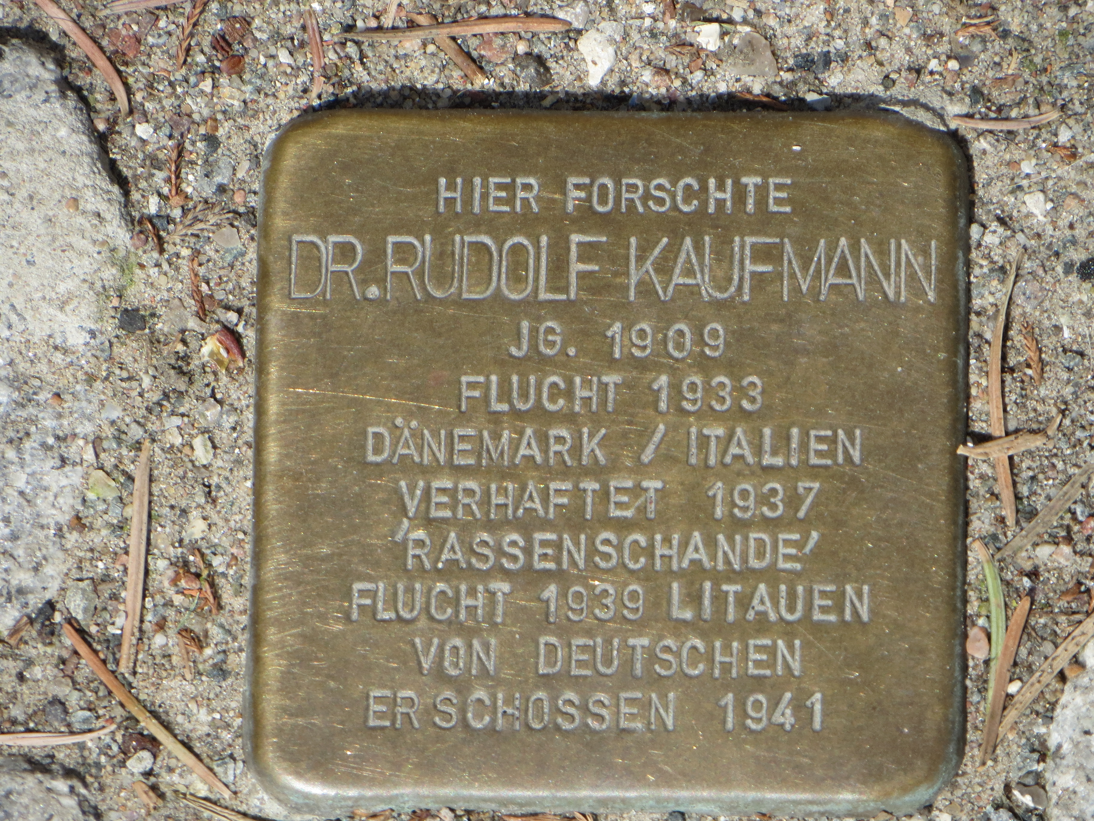 Stolperstein in Greifswald in front of Friedrich-Loeffler-Strasse 23c commemorating Rudolf Kaufmann